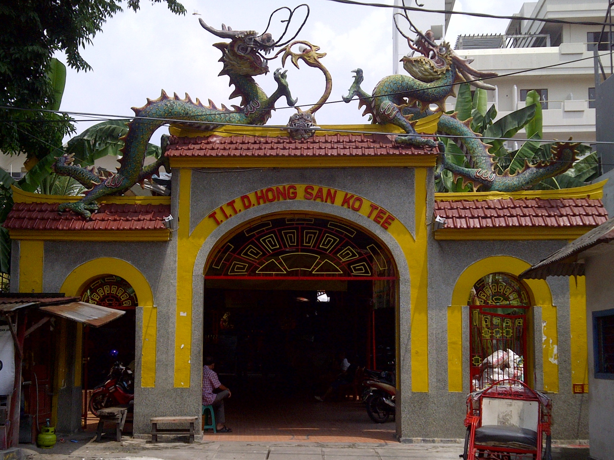 Main gate of Hong San Koo Tee Temple, Surabaya, Indonesia